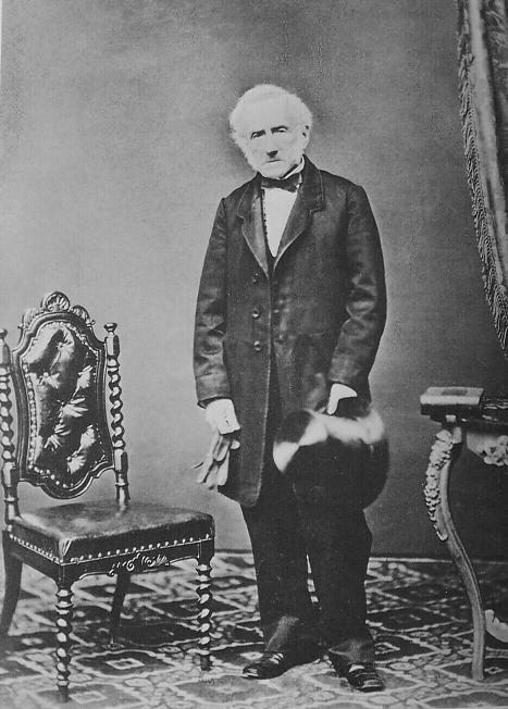 Portrait of Alessandro Manzoni